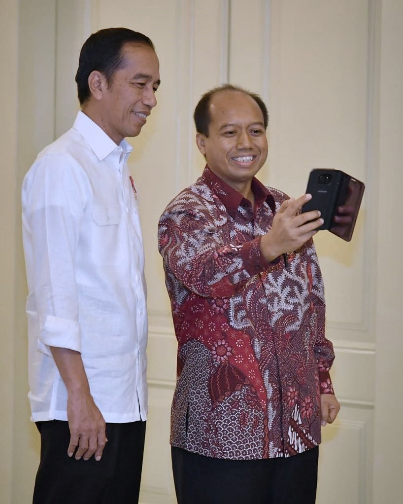 Joko Widodo meeting Sutopo Purwo Nugroho in 2018